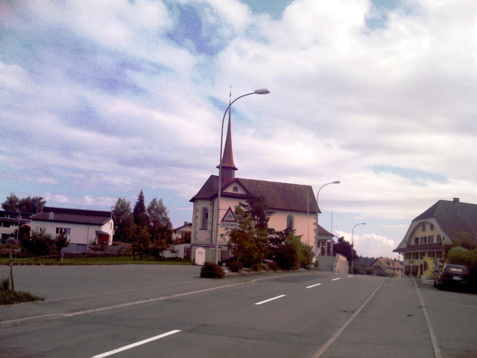 Church of Schwarzenbach, municipality of Beromünster, canton of Luzern, SwitzerlandEsperanto: Preĝejo de Schwarzenbach, komunumo Beromünster, Kantono Lucerno, Svislando